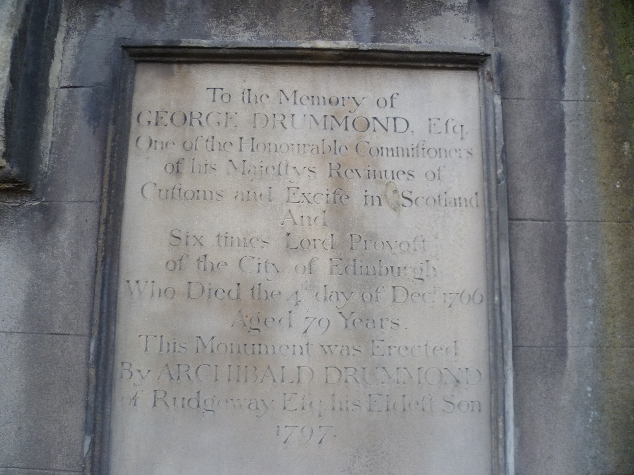 A plain tablet marks the grave of the visionary Lord Provost who first saw the possibilities of a northwards expansion of the city which resulted in the building of Edinburgh's 18thC New Town. He lived to see the completion of the first North Bridge, but died shortly before work on the New Town was begun in 1767. "I happened one day ... to be standing at a window [in the old town] looking out to the opposite side of the North Loch, then called Barefoot's Parks, in which there was not a single house to be seen. "Look at these fields," said Provost Drummond; "you, Mr. Somerville, are a young man, and may probably live, though I will not, to see all these fields covered with houses, forming a splendid and magnificent city. To the accomplishment of this, nothing more is necessary than draining the North Loch, and providing a proper access from the old town. I have never lost sight of this object since the year 1725, when I was first elected Provost."" -- Rev. Thomas Somerville referring to Drummond in 1763